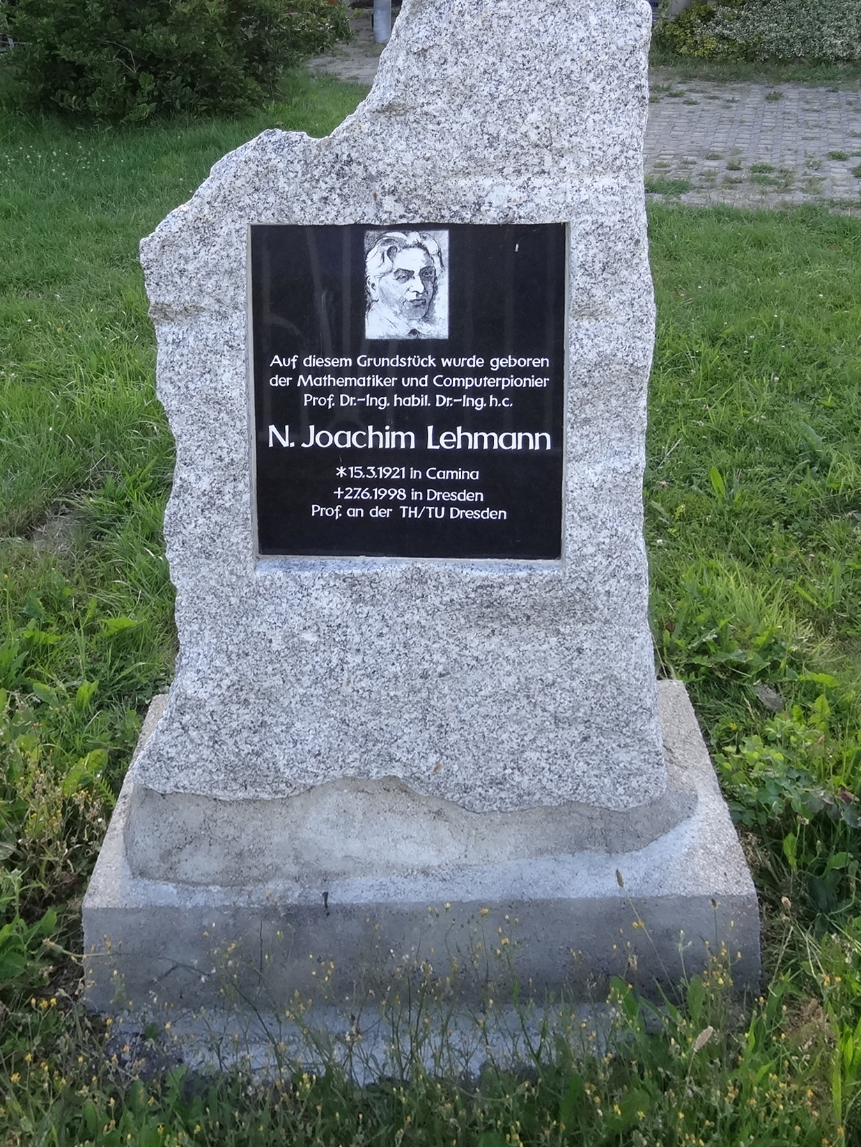 Memorial plaque in front of the birthplace of Nikolaus Joachim Lehmann in Camina Hornjoserbsce: Wopomnjenska tafla před ródnym domom Mikławša Joachima Wićaza w Kamjenej